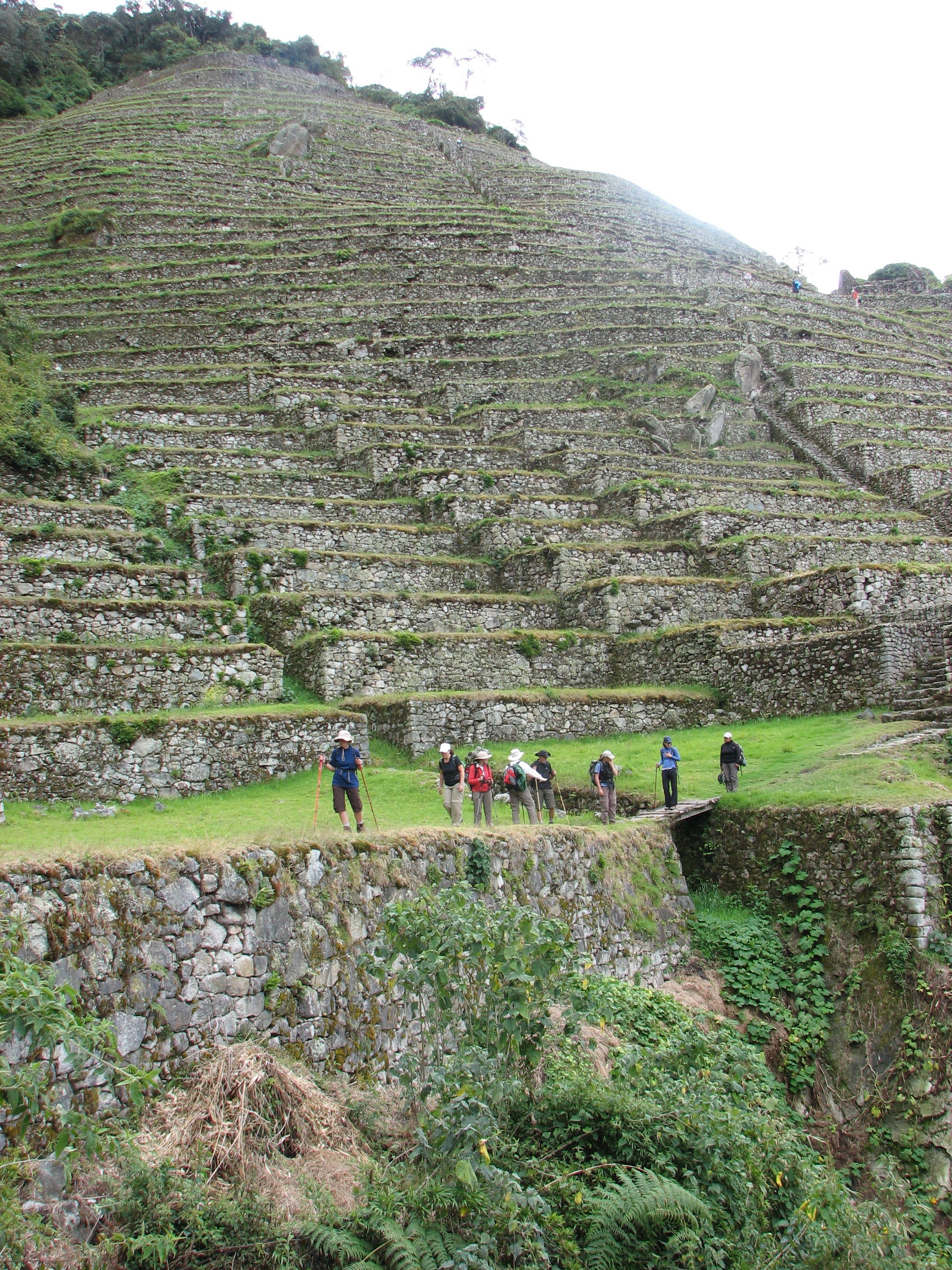 Steve Pastor own work 2008